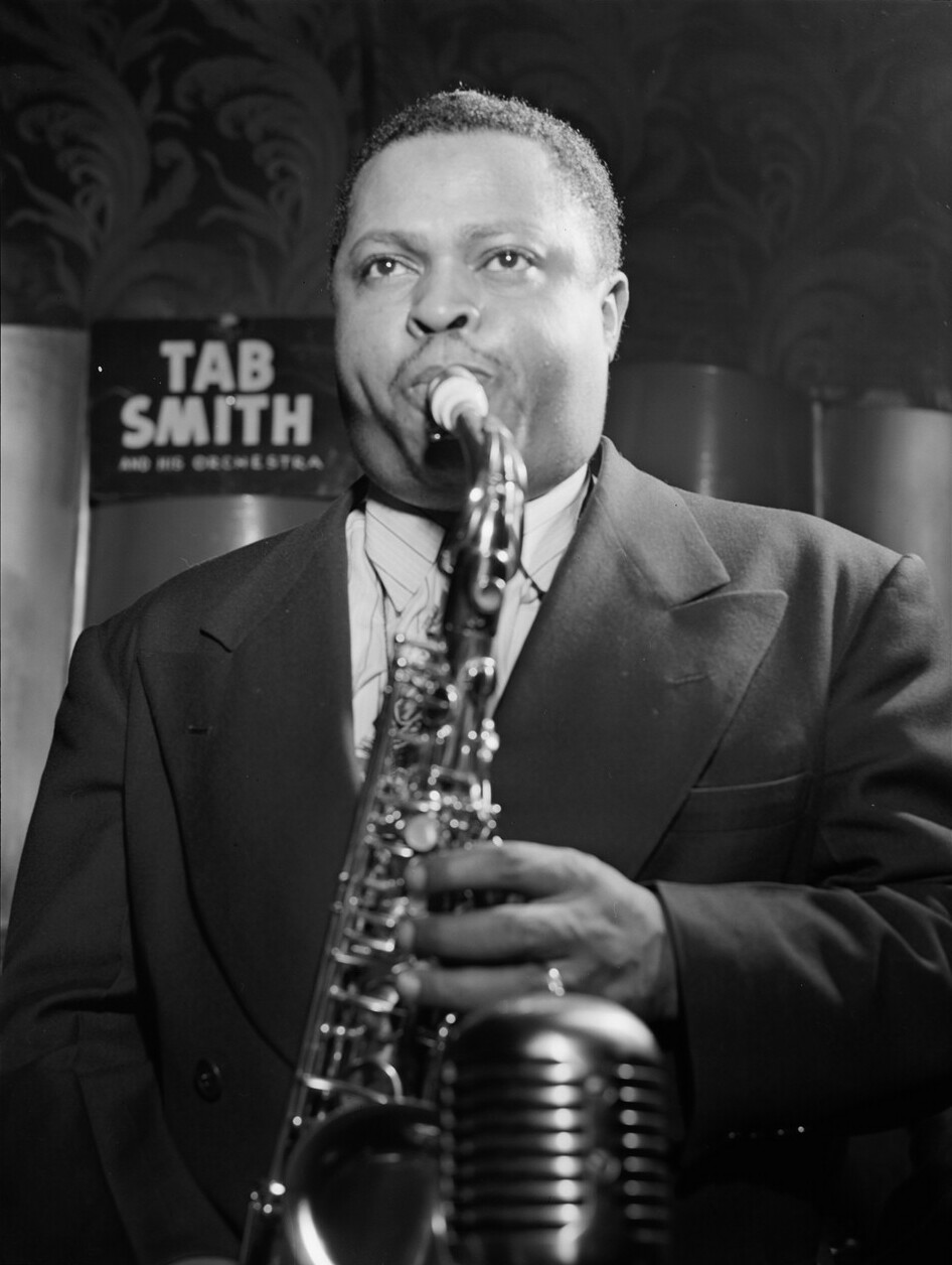 Talmadge (Tab) Smith (Kinston, North Carolina, January 11, 1909–Saint Louis, Missouri, August 17, 1971), was an American swing and rhythm and blues alto saxophonist. Gottlieb, William P., 1917-, photographer. Tab Smith, New York, N.Y., between 1946 and 1948] 1 negative : b&w ; 3 1/4 x 4 1/4 in. Notes: Gottlieb Collection Assignment No. 469 Reference print available in Music Division, Library of Congress. Purchase William P. Gottlieb Forms part of: William P. Gottlieb Collection (Library of Congress). Subjects: Smith, Tab, 1909-1971 Jazz musicians--1940-1950. Saxophonists--1940-1950. Format: Portrait photographs--1940-1950. Film negatives--1940-1950. Rights Info: Mr. Gottlieb has dedicated these works to the public domain, but rights of privacy and publicity may apply. Repository: (negative) Library of Congress, Prints & Photographs Division, Washington D.C. 20540 USA, (reference print) Library of Congress, Music Division, Washington D.C. 20540 USA, Part Of: William P. Gottlieb Collection (DLC) 99-401005 General information about the Gottlieb Collection is available at Persistent URL: Call Number: LC-GLB13- 0791